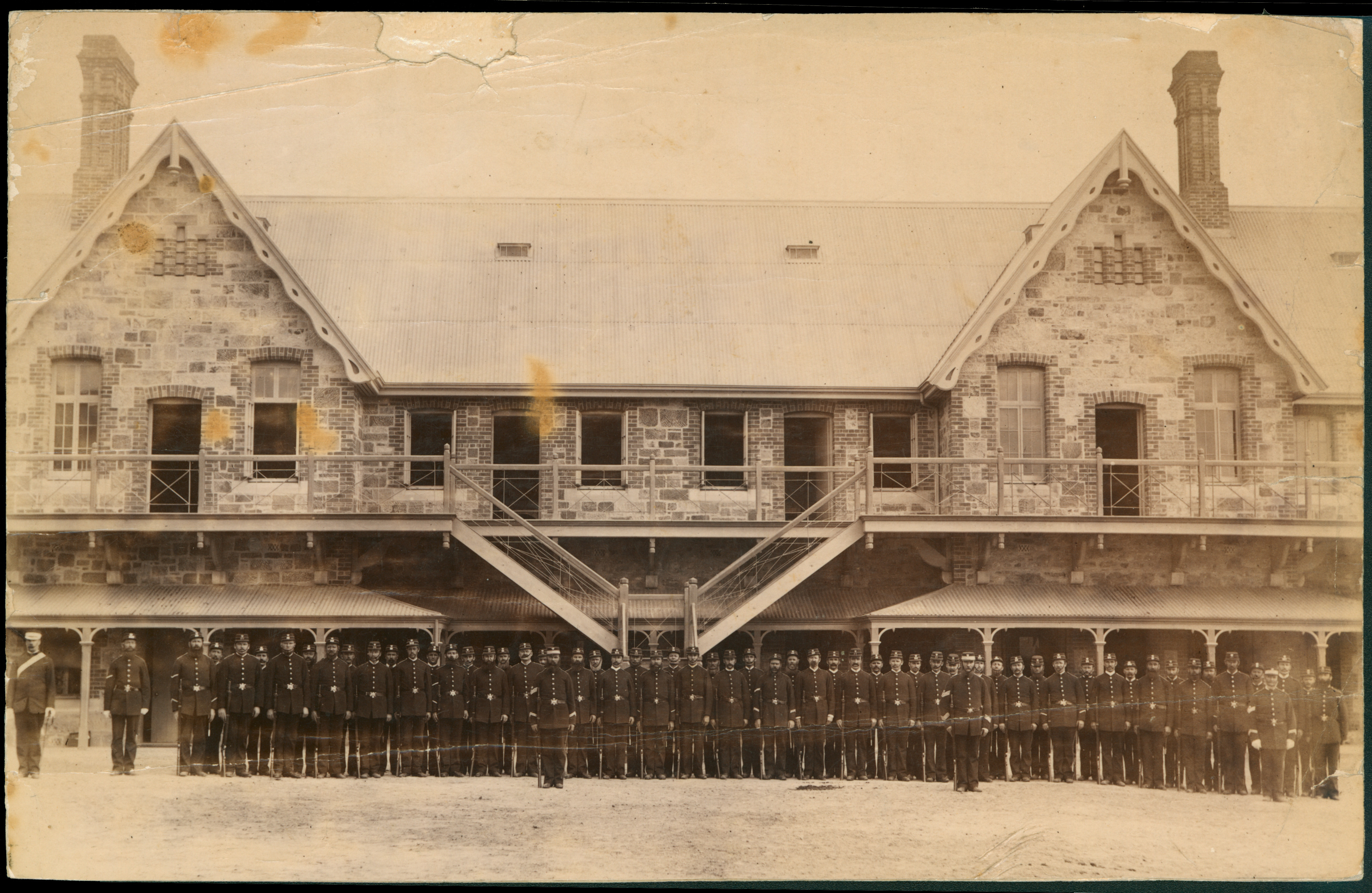 Police Barracks, west side in approximately 1890. In the 1850's the Mounted Police were involved as escorts for the transportation of gold bullion from the Victorian goldfields to Adelaide. The Mounted Police served in both the metropolitan and rural areas. The photograph shows approximately 60 policemen on parade in the courtyard of the Police Barracks behind the South Australian Museum on North Terrace.